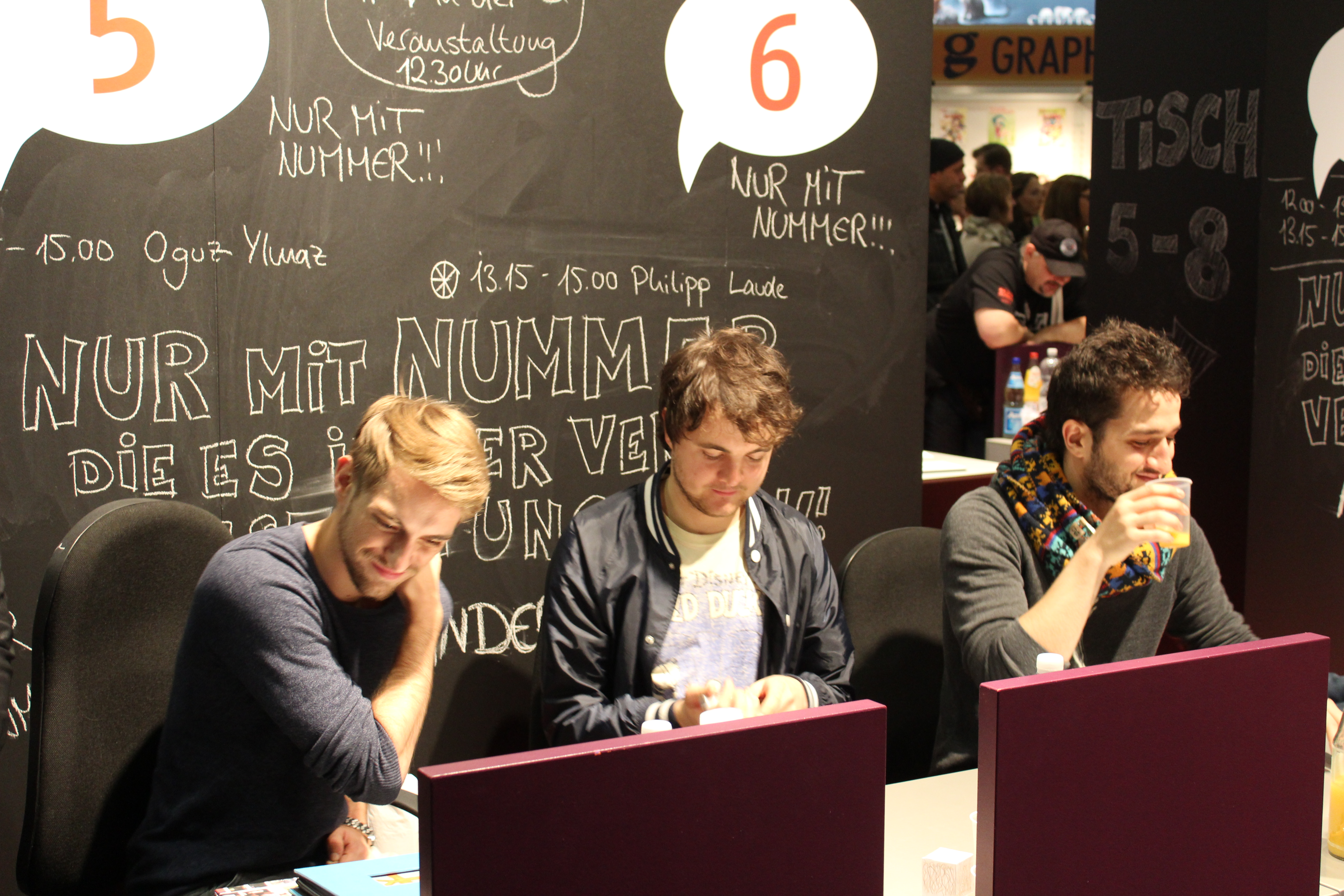 Y- Titty at Frankfurt Book Fair during the presentation of "Das Buch YOLO"